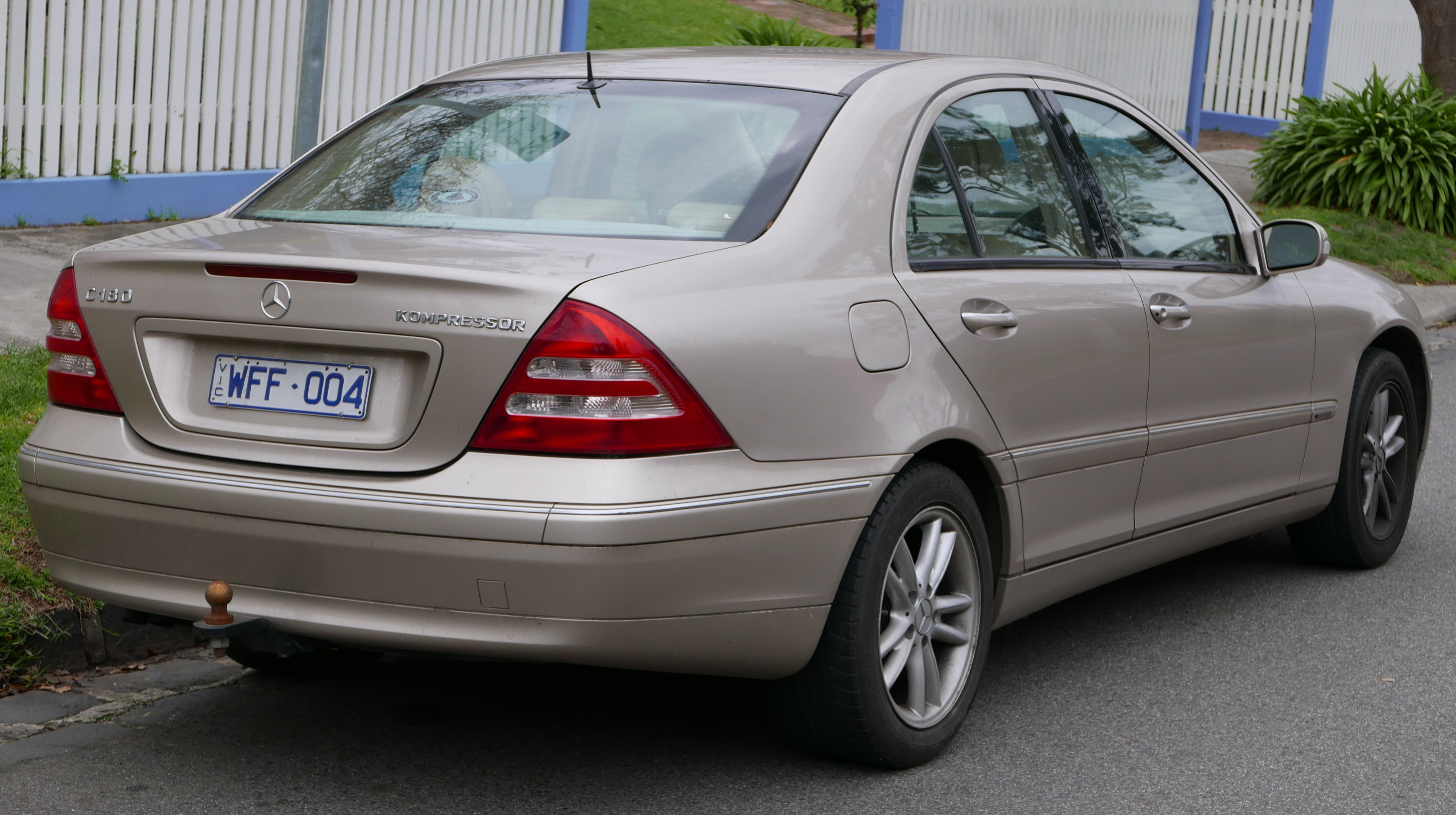 2002 Mercedes-Benz C 180 Kompressor (W 203 MY03) Elegance sedan. Despite the date discrepancy with the vehicle registration information below, a check of the VIN reveals a "delivery date" of 12 December 2002. Photographed in Kew, Victoria, Australia. Vehicle registration enquiry resultsJurisdictionVictoriaRegistrationWFF004Chassis codeWDC2030462R089792Engine code27194630059899Compliance date2002-01Year of manufacture2003 (not a typo)